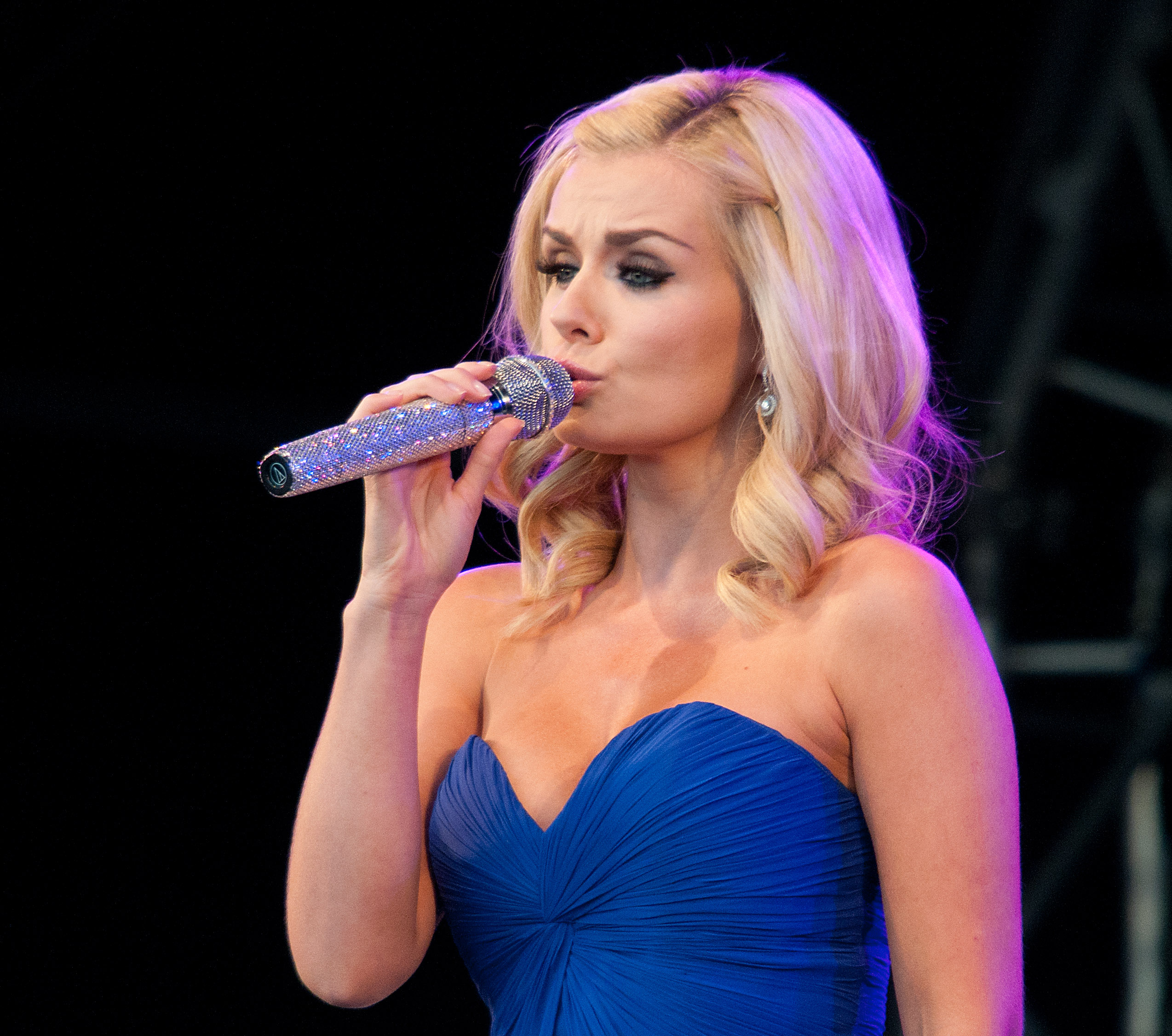 Katherine Jenkins live at Clumber Park in August 2011.